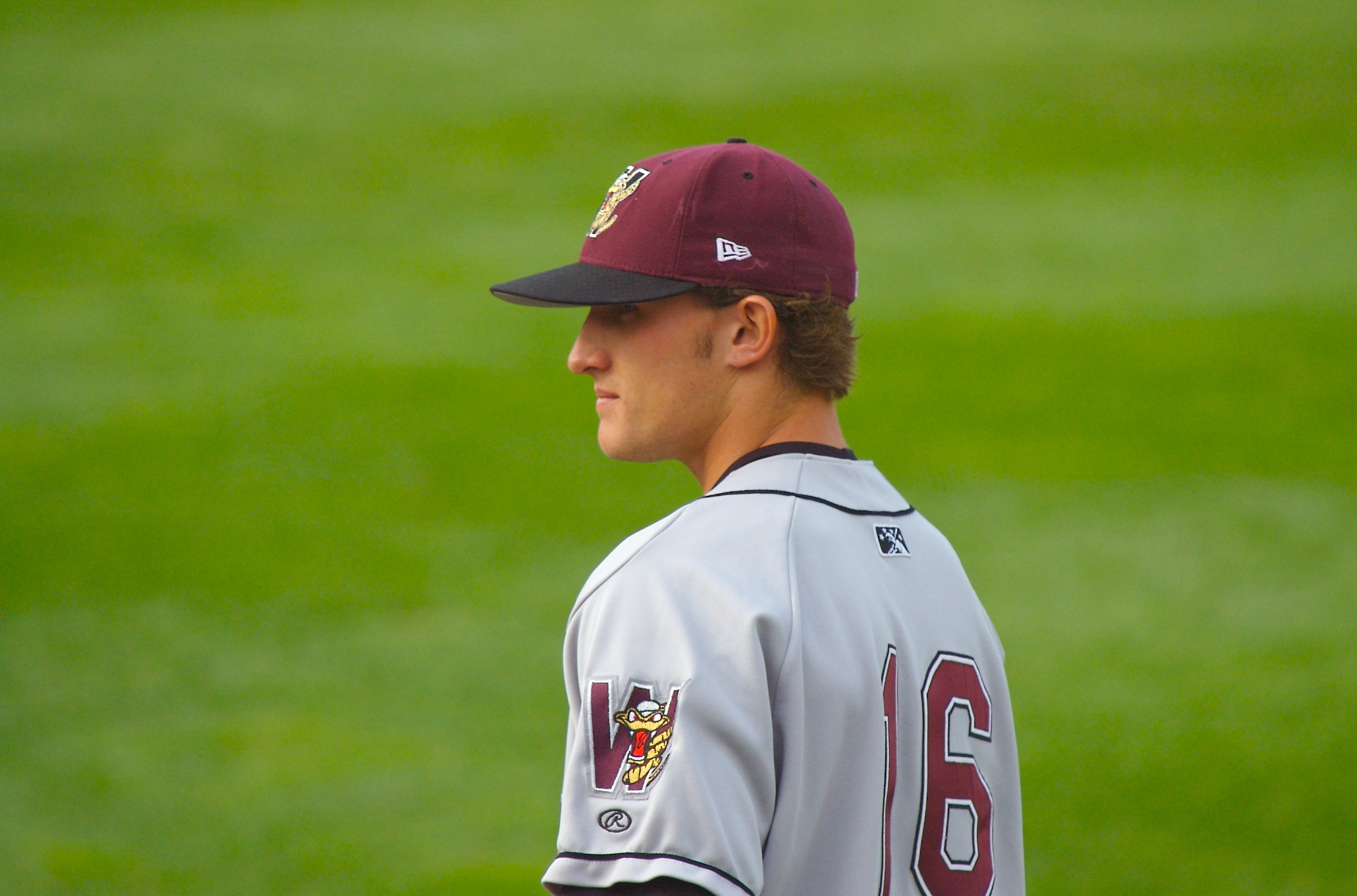 Kyle Parker in 2007.